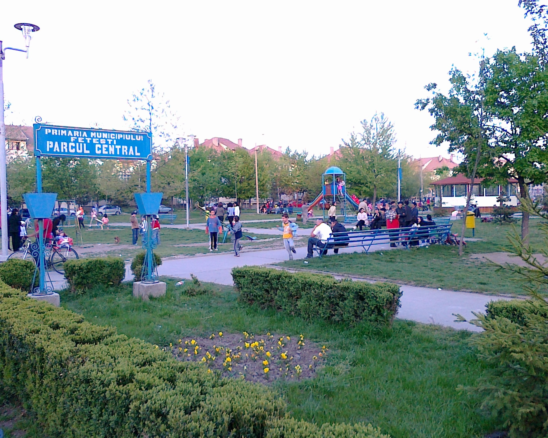 The central park of Fetesti, Ialomita county, Romania